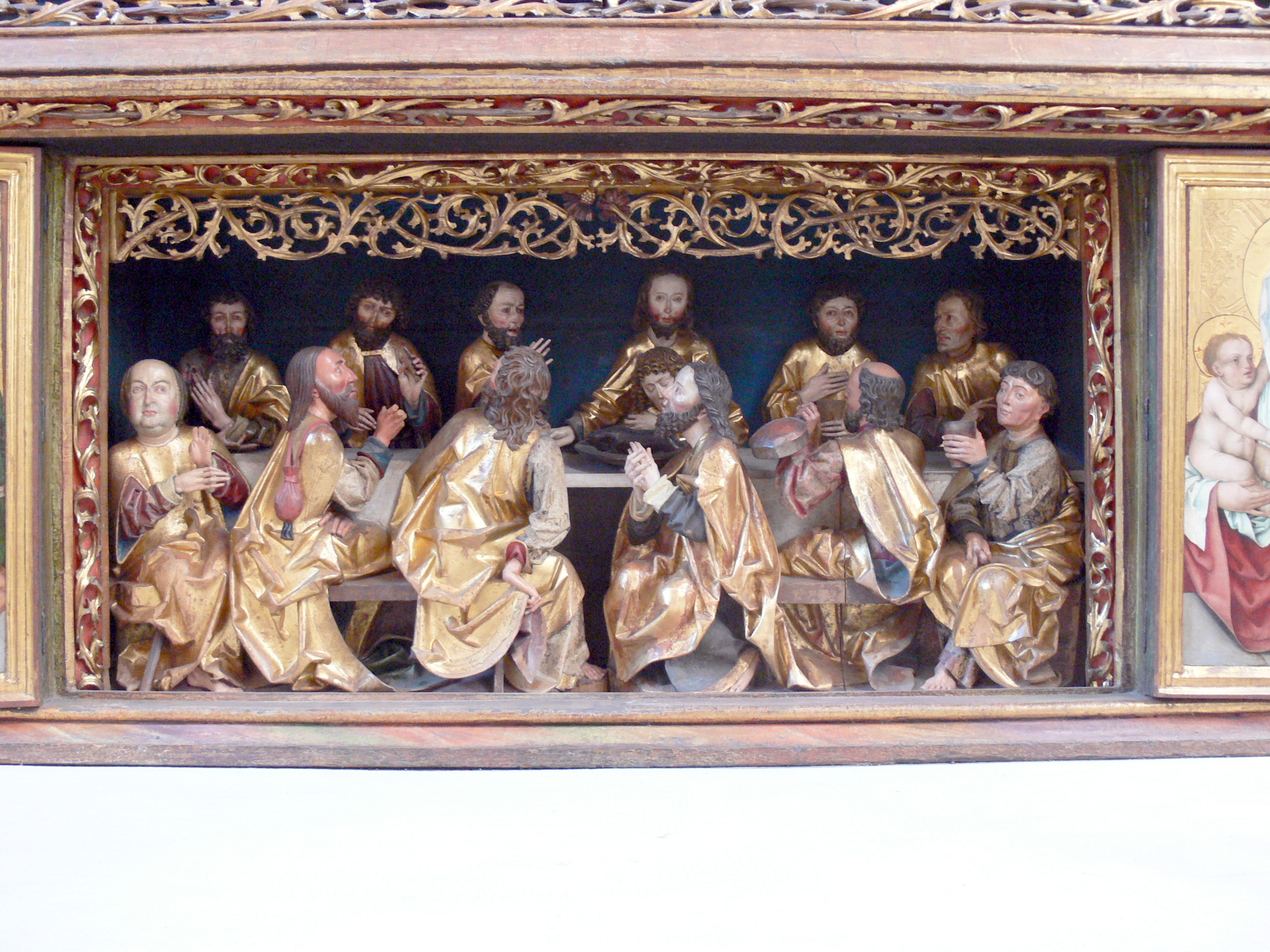 Schwabach - City church. Predella of the High altar: Last Supper